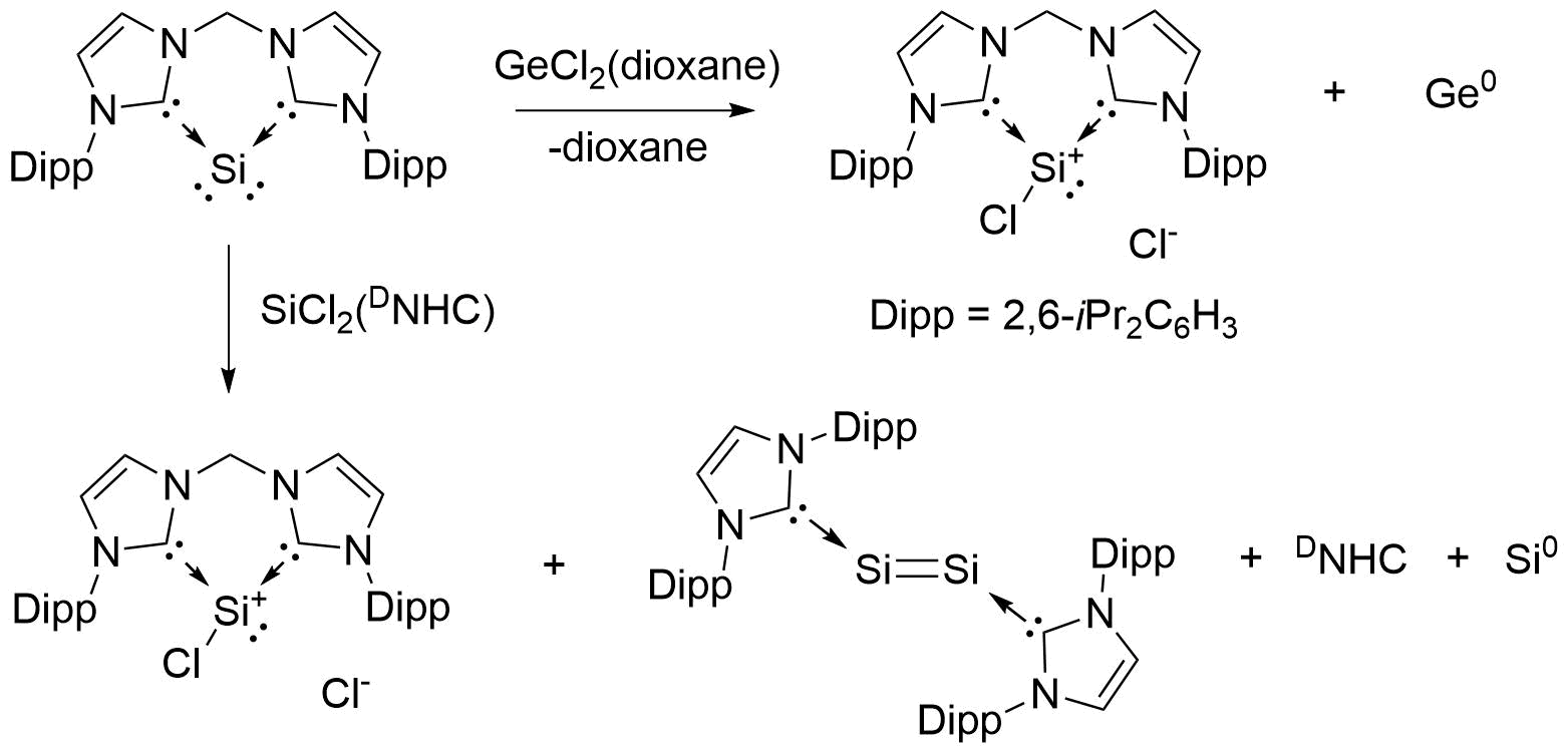 Reaction schematic describing NHC-Stabilized Silylones as reducing agents, as described in Figure 5 of Yao et al (